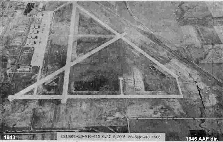 Oblique photo of Lincoln Army Airfield, Nebraska, 26 September 1943